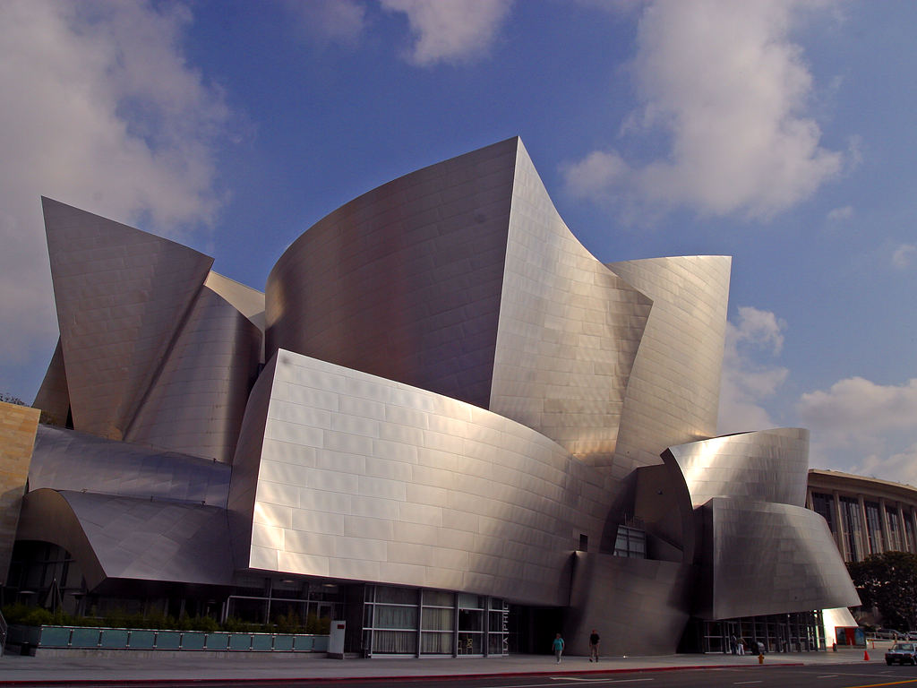 The Walt Disney Concert Hall in Los Angeles California. The building was designed by Frank Gehry and opened on 23 October 2003. It is the fourth music hall of the Los Angeles Music Center.